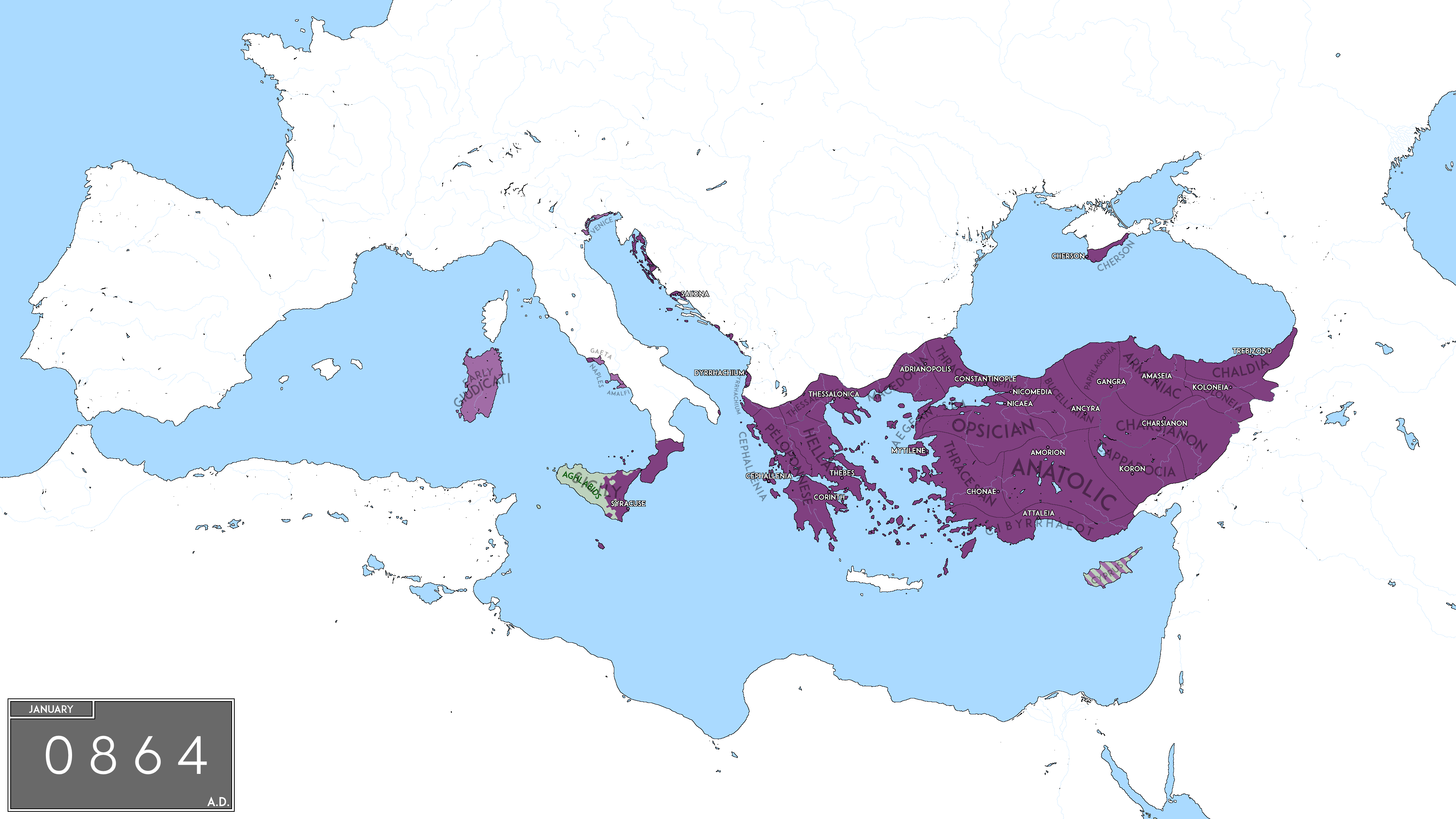 Map of The Eastern Roman Empire under The Amorian Dynasty.